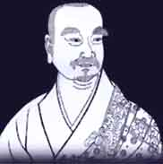 Shenxiu (ca. 7th and 8th centuries CE), Chinese Zen Buddhist teacher. According to traditional histories of the later Zen schools, Shenxiu was the heir apparent of the 5th Patriarch of Chinese Zen, and became a jealous rival when Huineng was selected instead of him to become the 6th Patriarch. According to Shenxiu's supporters, Shenxiu was the true 6th Patriarch. Shenxiu's supporters formed the "Northern School", while Huineng's supporters (especially after his death), became the "Southern School". Ultimately, the Southern School proved more successful in cultivating support, and so this became the root of subsequent mainstream Zen schools, with Shenxiu officially seen as a pretender. Image taken from